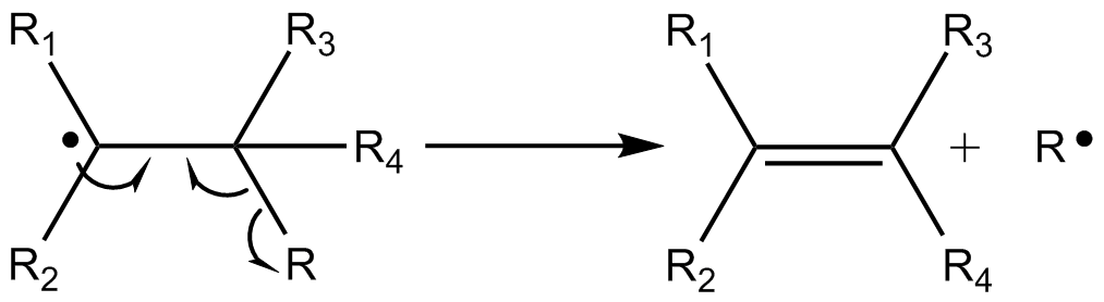 Generic beta-scission reaction